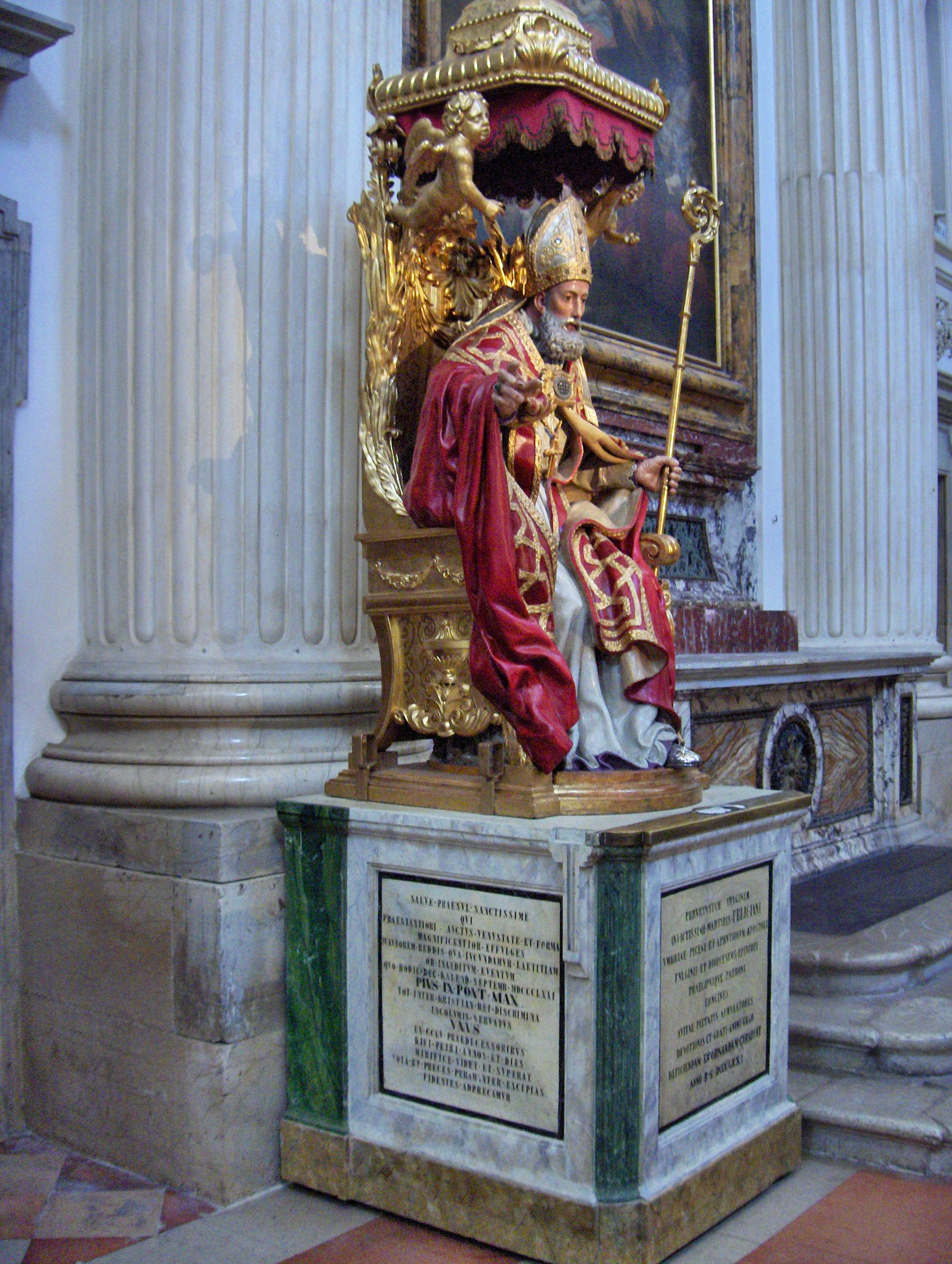 Statue of St Felician enthroned (1732-3) of silver and bronze, made to a design by the sculptor Giovanni Battista Maini.; the throne (1703-13) was made in Rome by the German Adolf Gaap; Cathedral of San Feliciano, Foligno, Italy